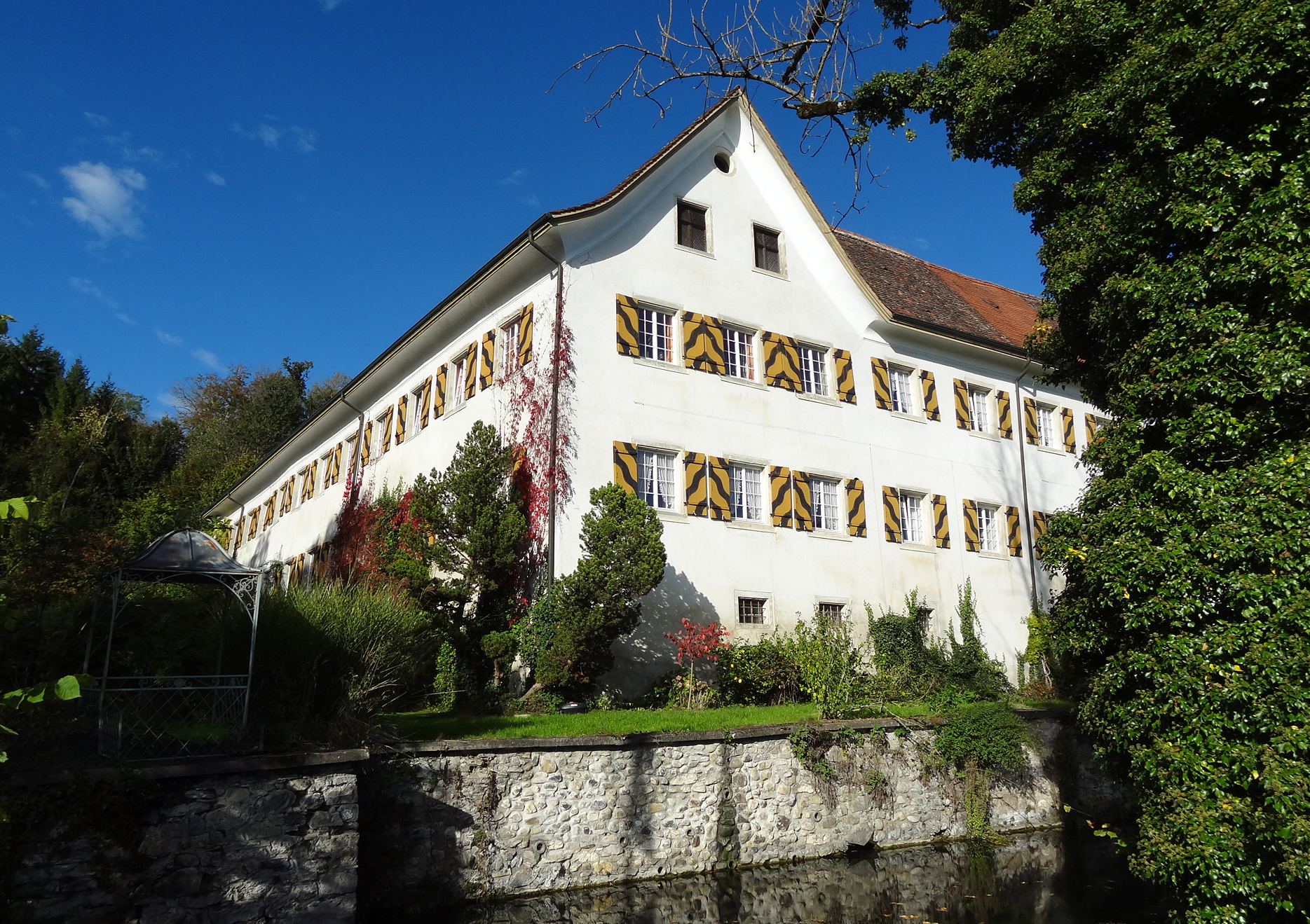 Klingenberg Castle in Homburg, Switzerland